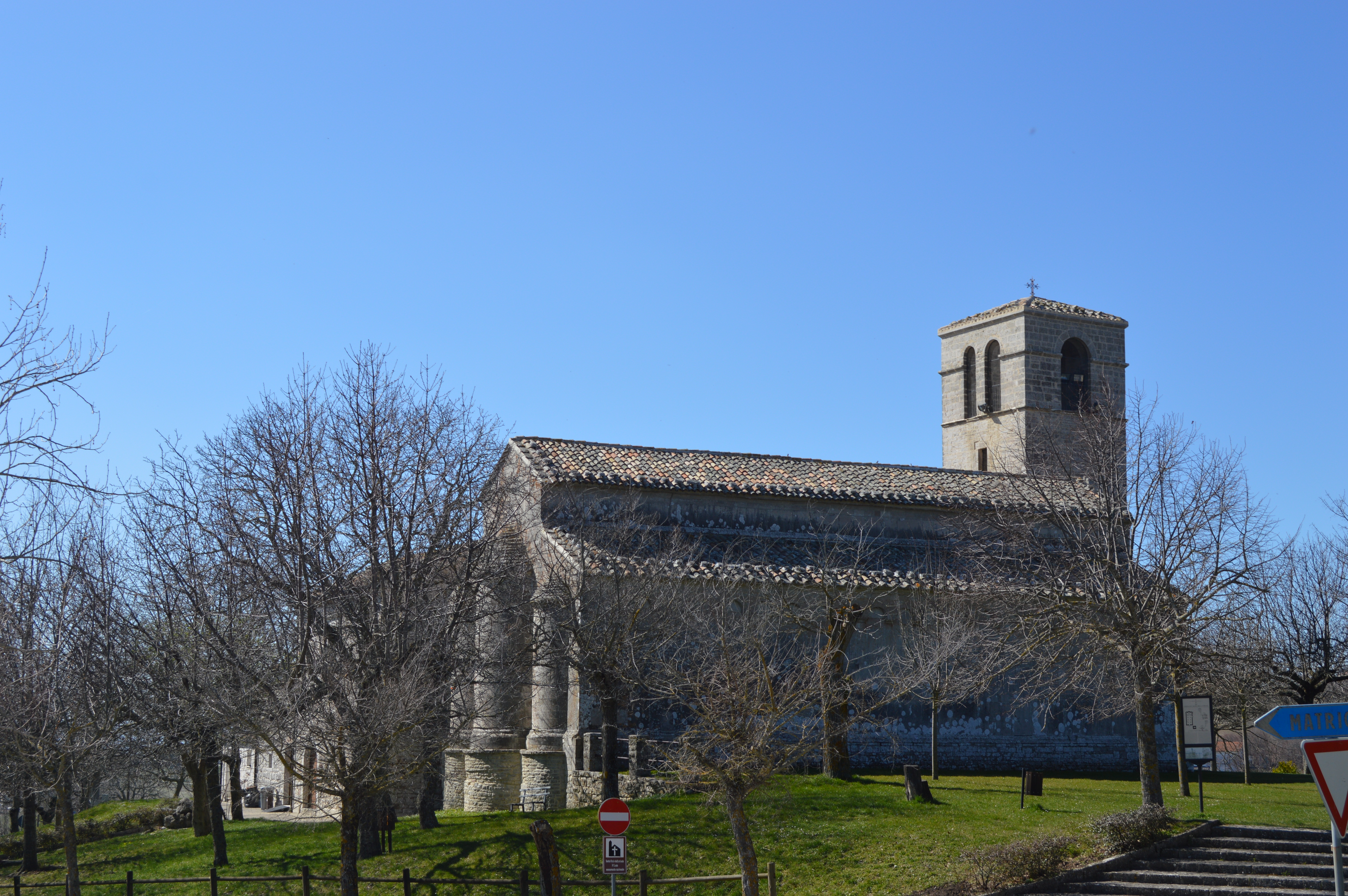 Santa Maria della Strada Church ,Matrice, Molise